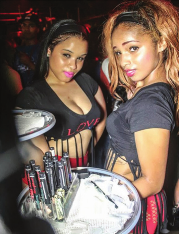 E-cigarette samples provided at an event, photograph from the January 2015 California Department of Public Health's State Health Officer's Report on E-Cigarettes.